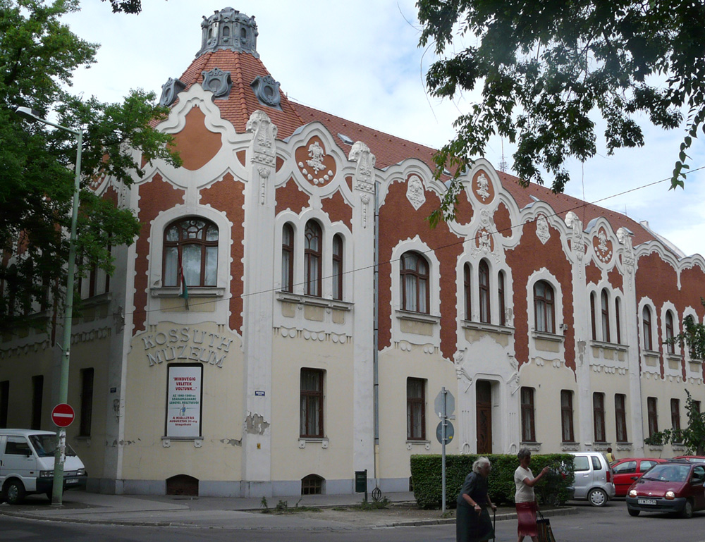 Cegléd, Hungary: Lajos Kossuth Museum, originally Czeglédi Ipar és Kereskedelmi Bank, 1907